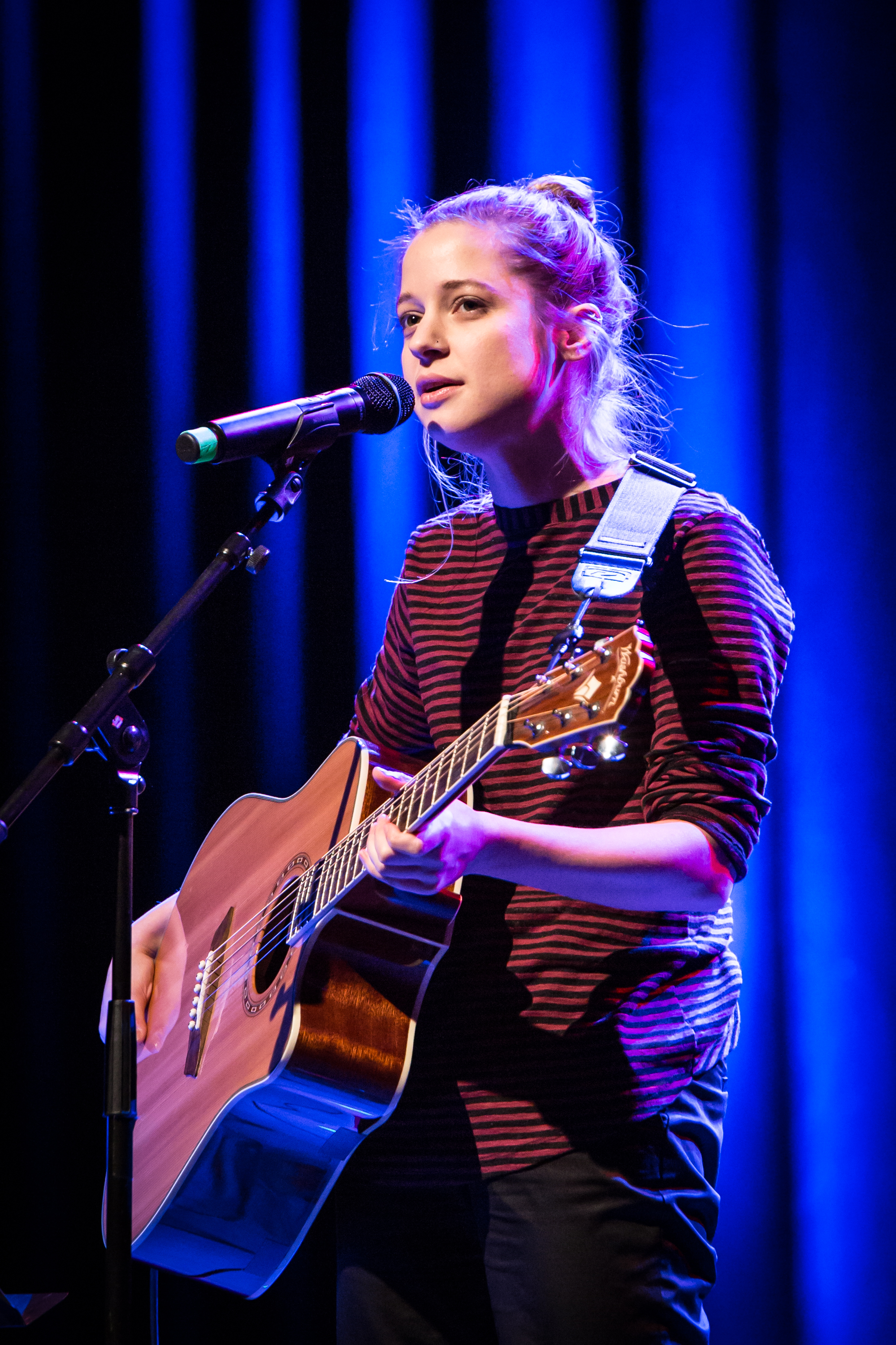 Swiss author Lara Stoll at the Internationale Kulturbörse Freiburg 2018